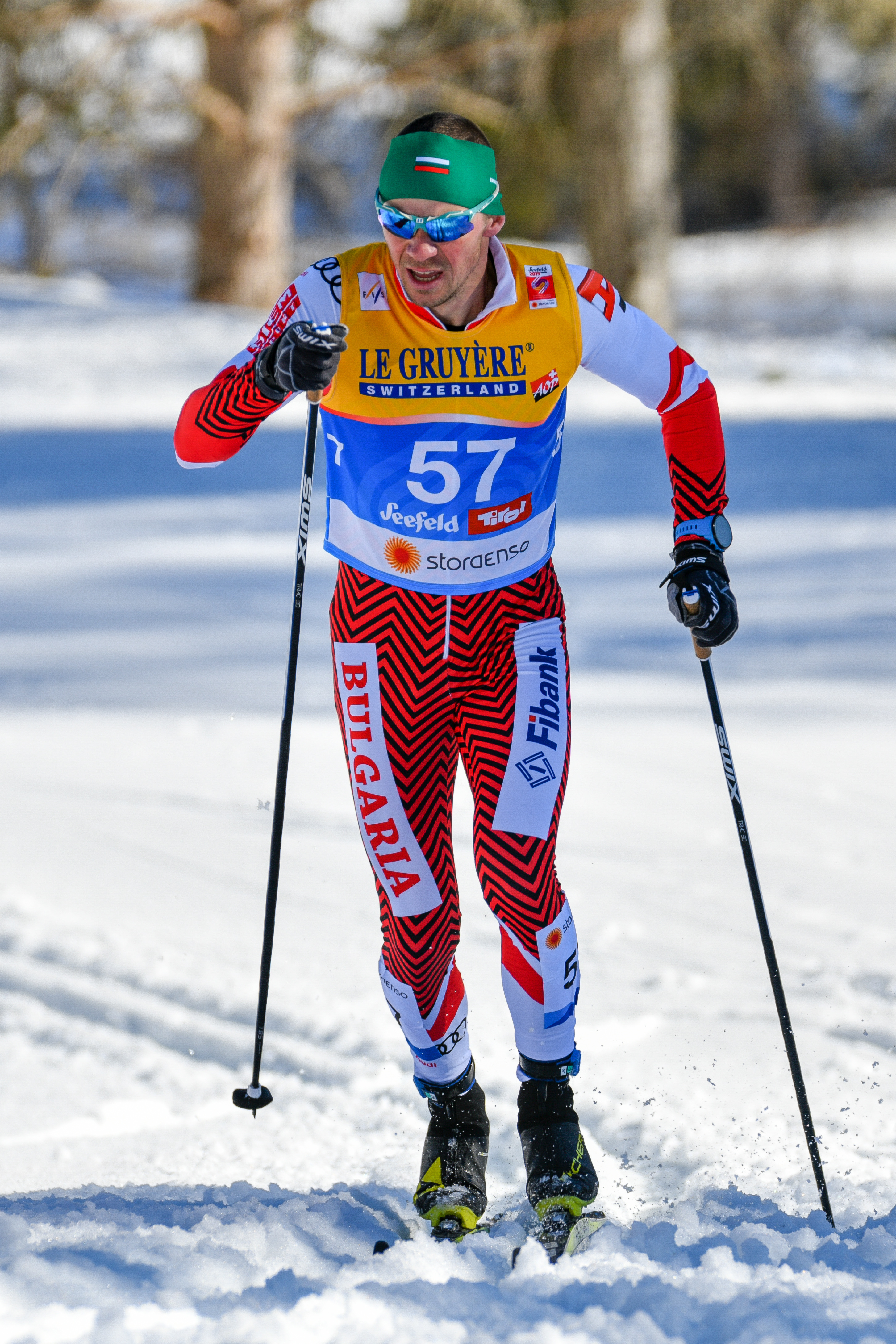 FIS Nordic Wolrd Ski Championships Seefeld 2019 - Men 15km Interval Start Classic. Picture shows Veselin Tsinzov (BUL).